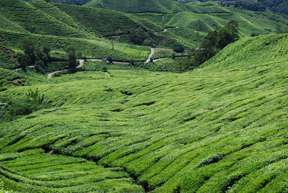 BOH"s Tea Plantation at Sg.Palas, Cameron Highlands, captured with NIKON D60 DSLR camera, author Loke Seng Hon.